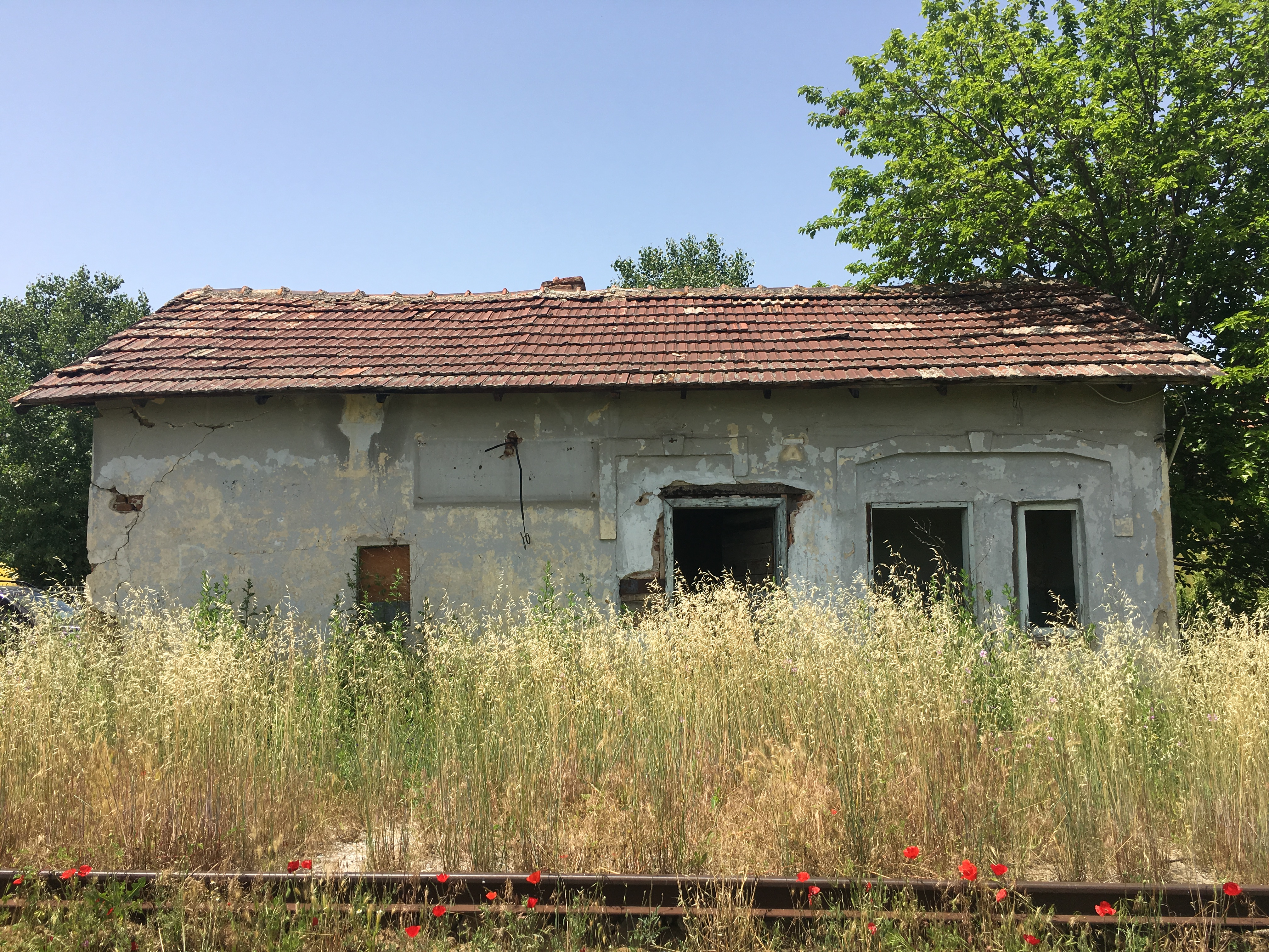 Loznani train station